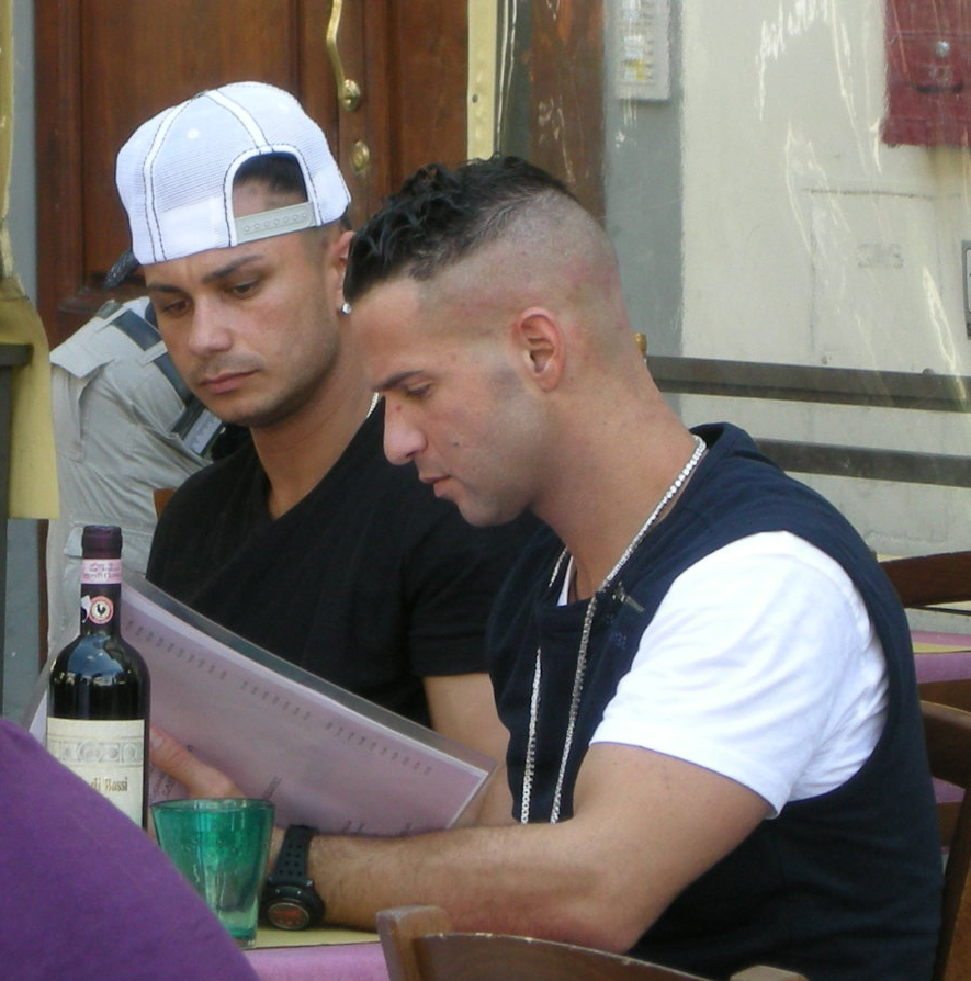 Jersey shore guys, shooting in Florence, may 2011